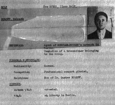 Red Orchestra member Helmut Roloff